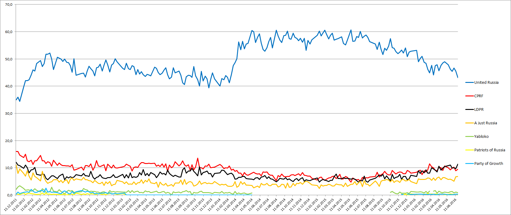 Opinion polls on Russian lwgisllative election, 2016. 7 parties that were legal at the beggining of 2012 political reform are included